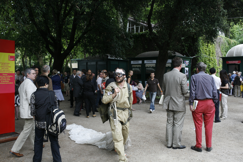 Venice biennale 2007 Giardini